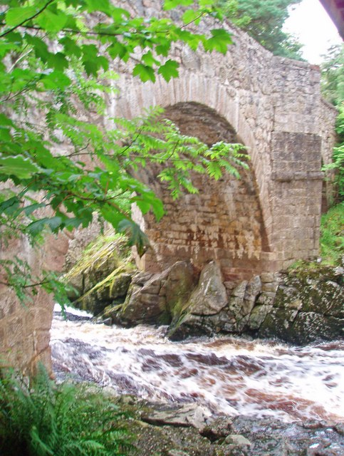 Feugh Cascades flowing under the Bridge of Feugh, Aberdeenshire, Great Britain